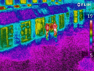 Thermographic view of people in a street